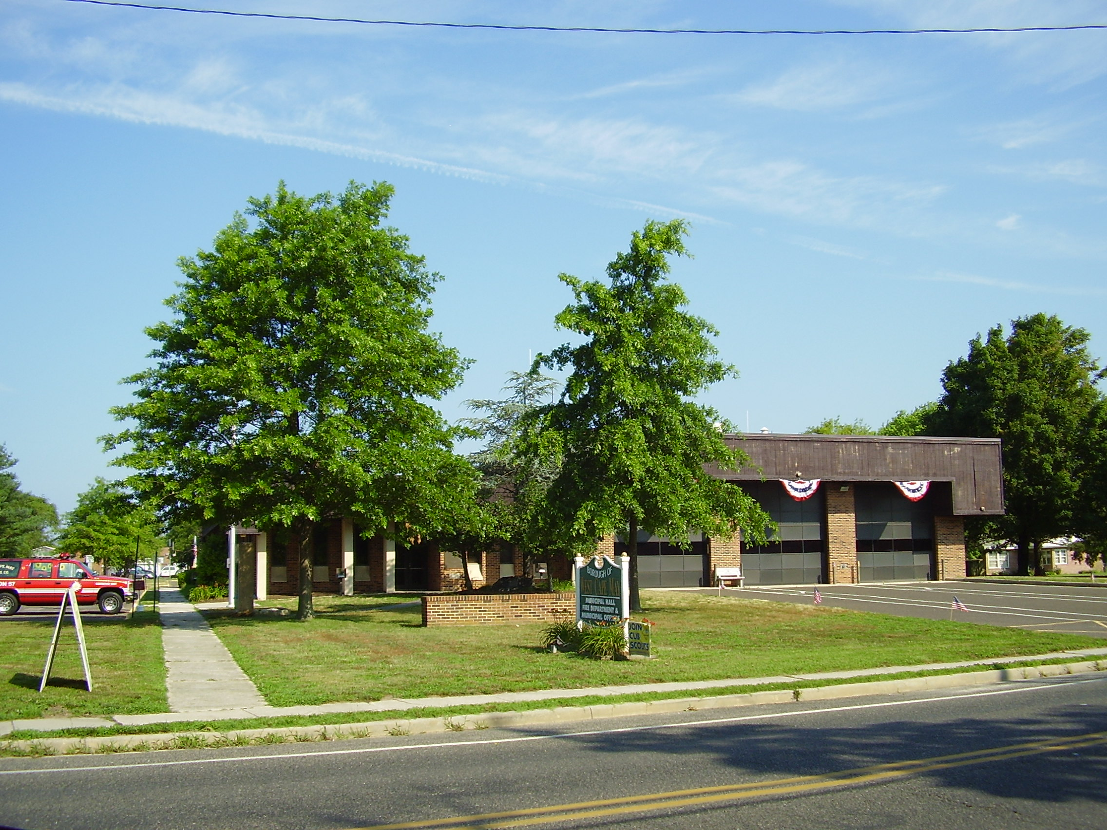 West Cape May, New Jersey Municipal Complex